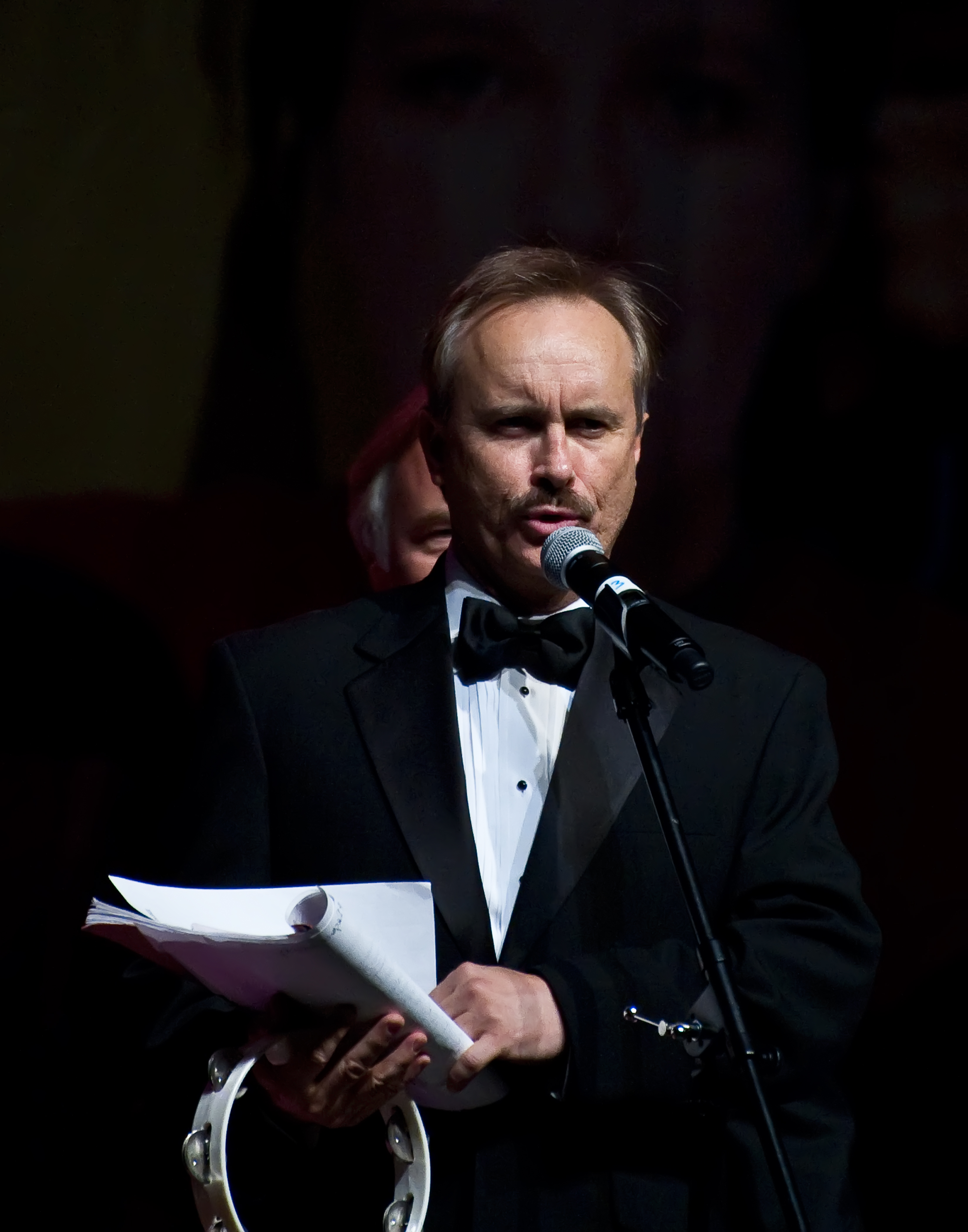 Jeffrey Combs at the Star Trek Convention, Las Vegas